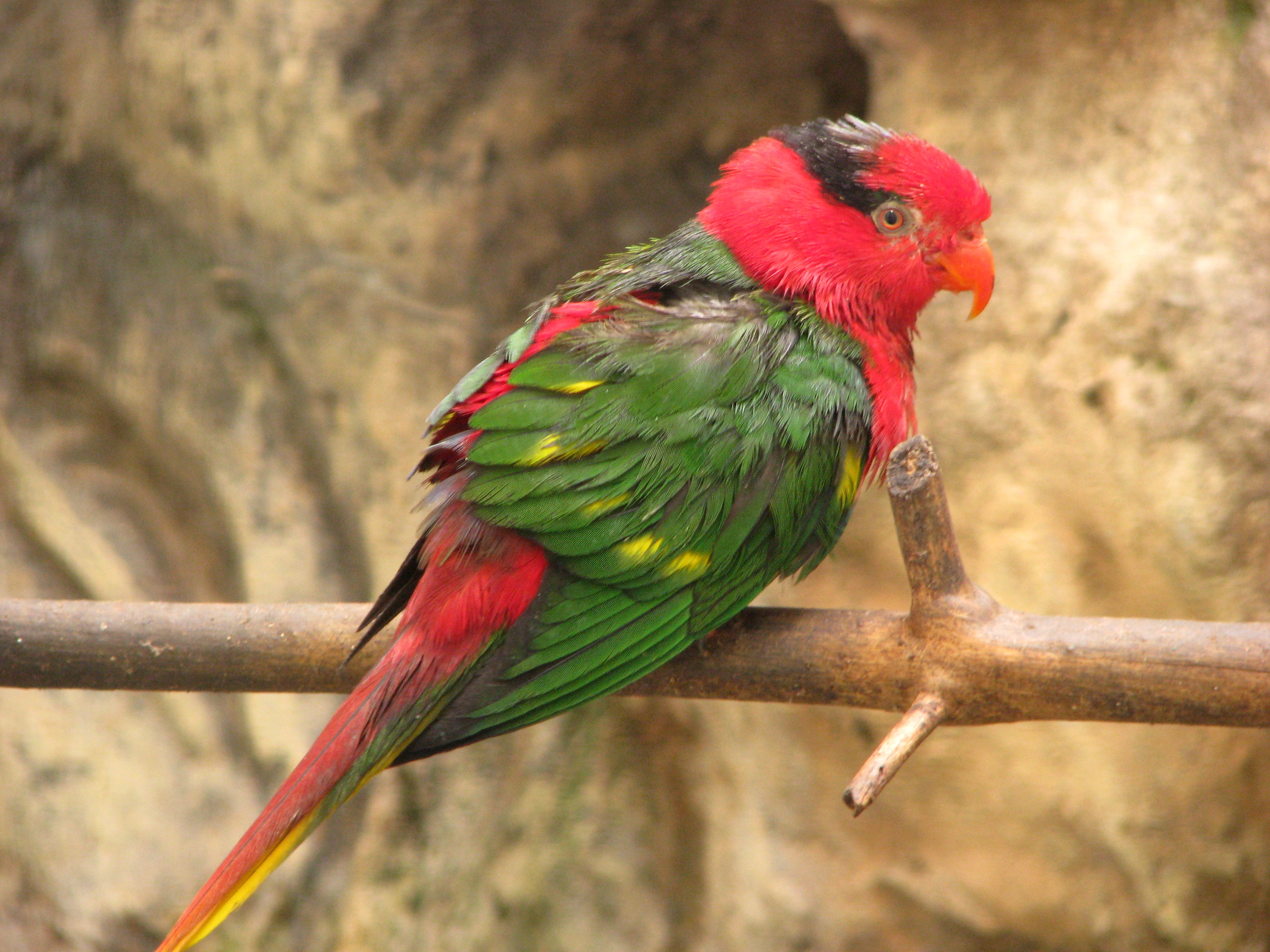 Josephine's Lorikeet (Charmosyna josefinae) at Loro Parque (Espane, Tenerife)